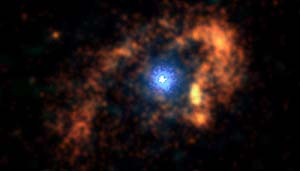 Chandra has revealed unexpected structures around the nova at the center of Eta Carina. The colors are artificial to help the viewer sort out details and structure. The new X-ray observation shows three distinct structures: an outer, horseshoe-shaped ring about 2 light years in diameter, a hot inner core about 3 light-months in diameter, and a hot central source less than 1 light-month in diameter which may contain the superstar that drives the whole show. The outer ring provides evidence of another large explosion that occurred over 1,000 years ago. Credit: Chandra Science Center and NASA.